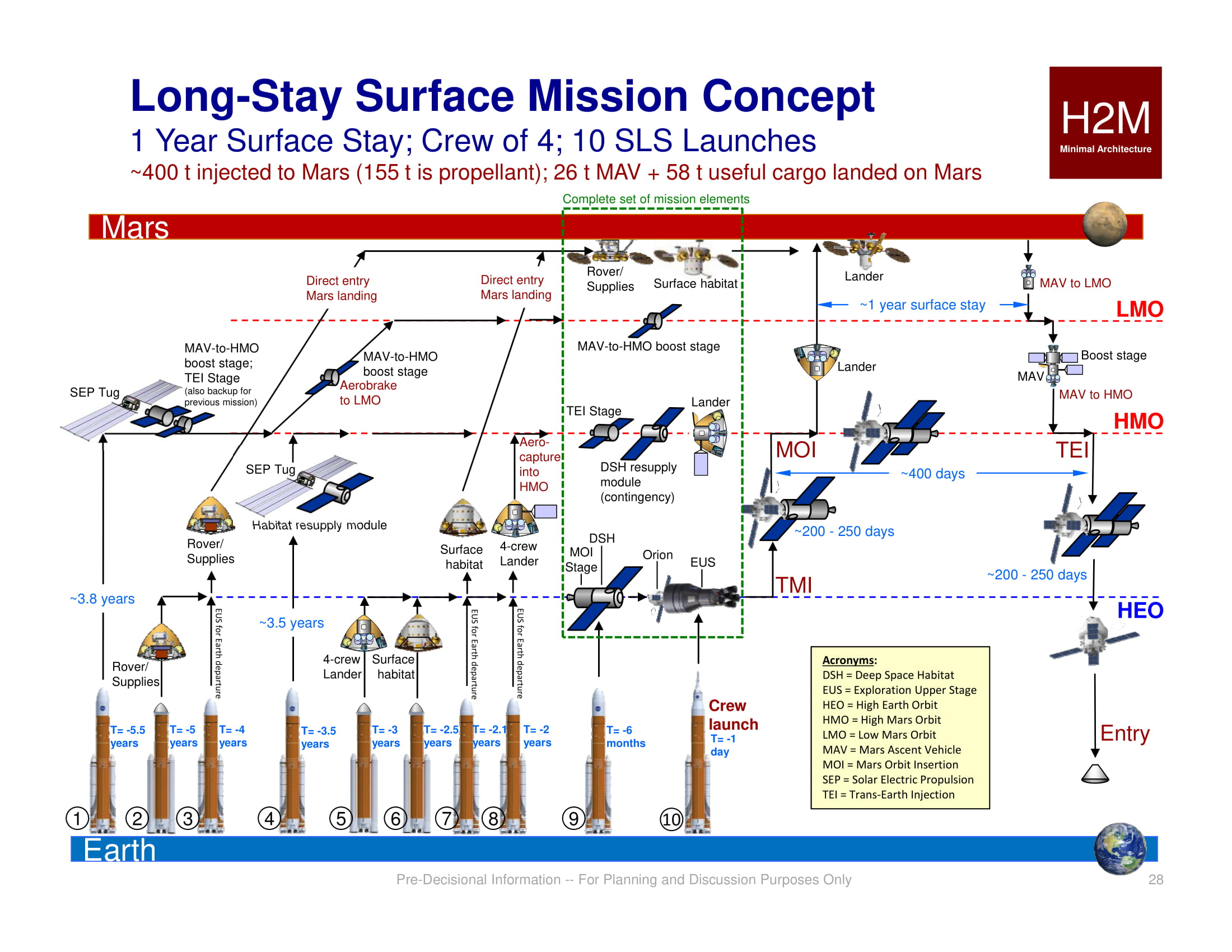 A Minimal Architecture for Human Missions to Mars Diagram with Long Stay mission: all elements are pictured in the diagram, SLS launches, veichles, etc. There is also a legend which shows the meaning of every acronym.